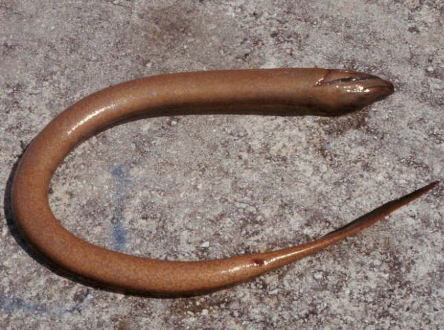 Asian Swamp Eel